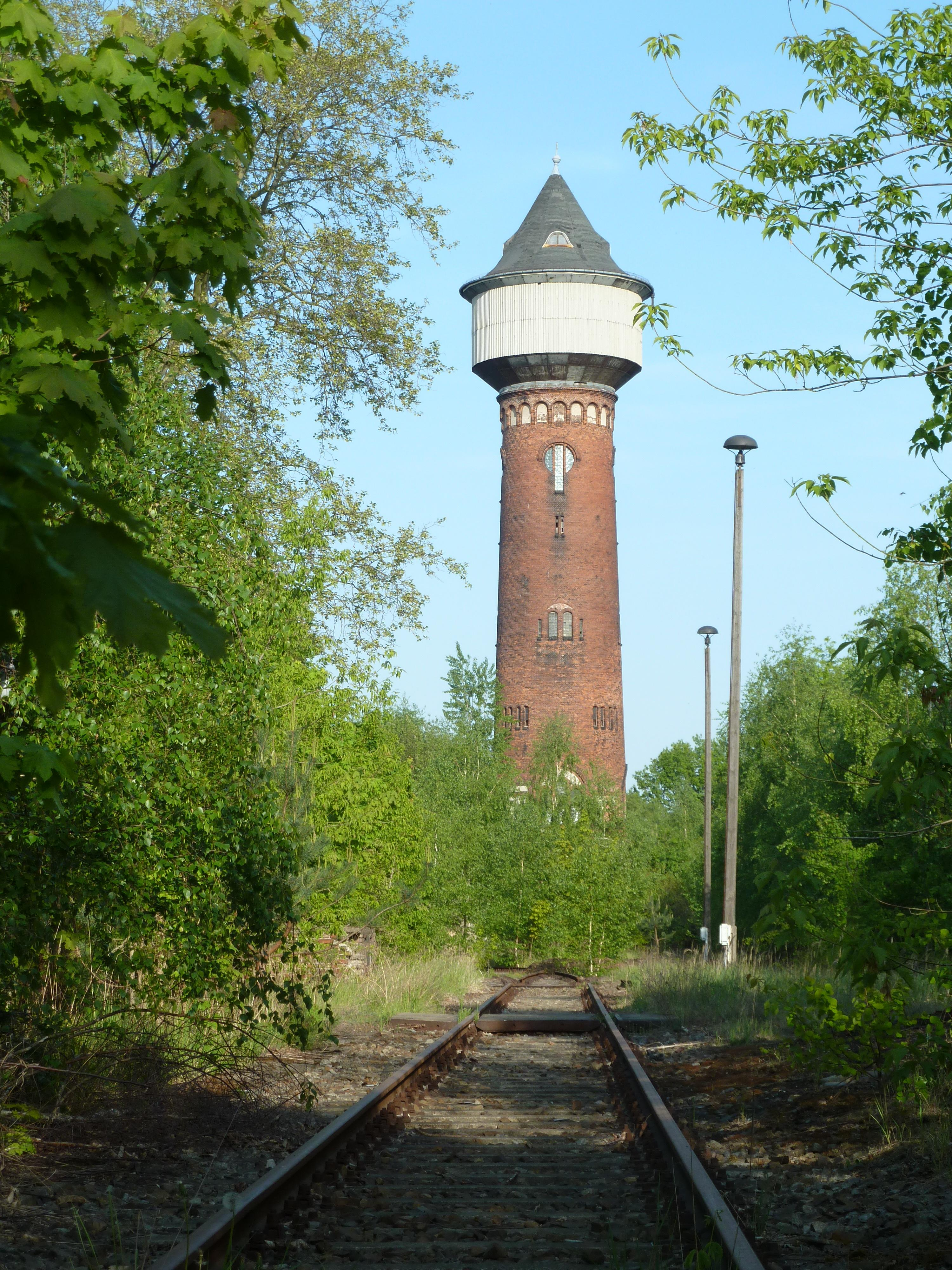 Wustermark Rangierbahnhof, water tower